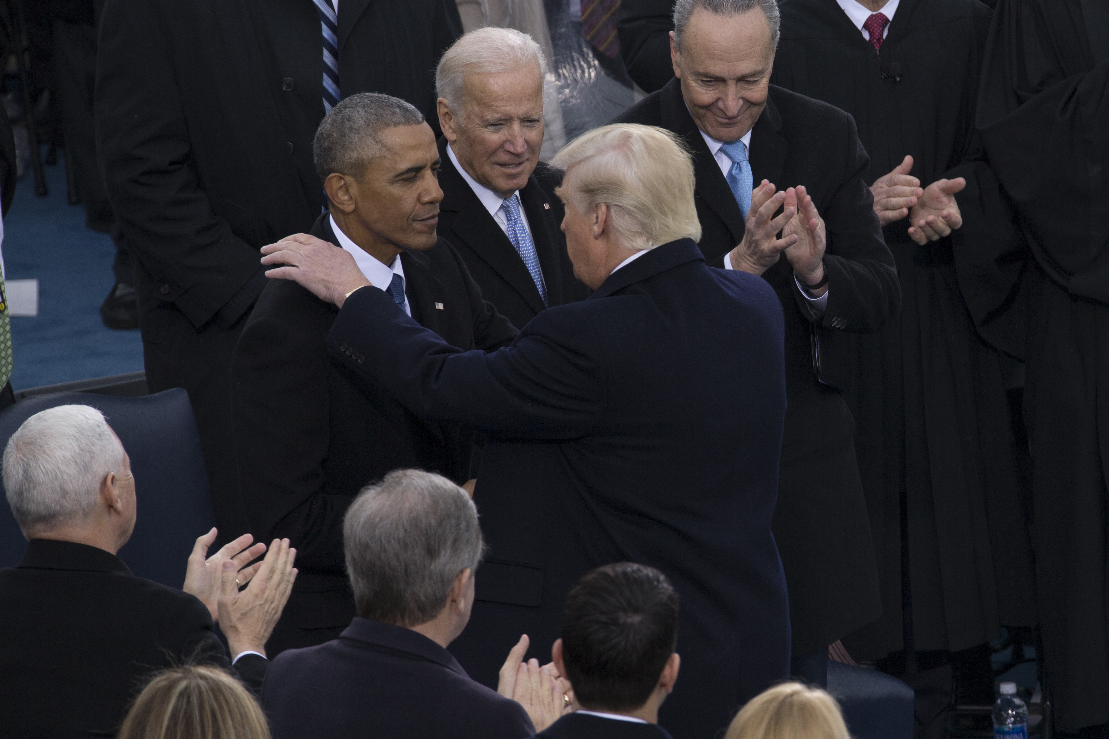 President Donald J. Trump shakes hands with the 44th President of the United States, Barack H. Obama during the 58th Presidential Inauguration at the U.S. Capitol Building, Washington, D.C., Jan. 20, 2017. More than 5,000 military members from across all branches of the armed forces of the United States, including Reserve and National Guard components, provided ceremonial support and Defense Support of Civil Authorities during the inaugural period. (DoD photo by U.S. Marine Corps Lance Cpl. Cristian L. Ricardo)